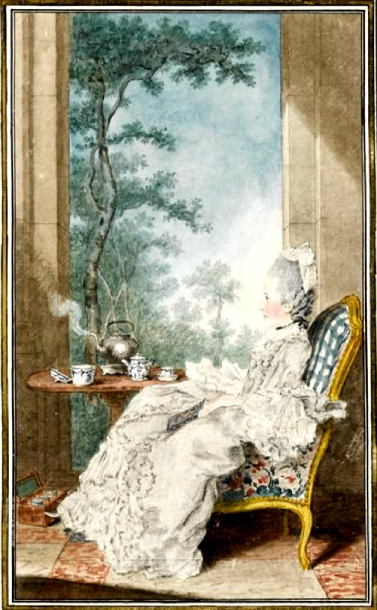 Portrait of Marie-Charlotte Hippolyte de Campet de Saujon Countess of Boufflers (1725–1800)